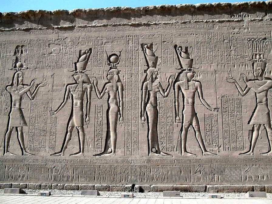 outer wall of the Hathor temple at Dendera